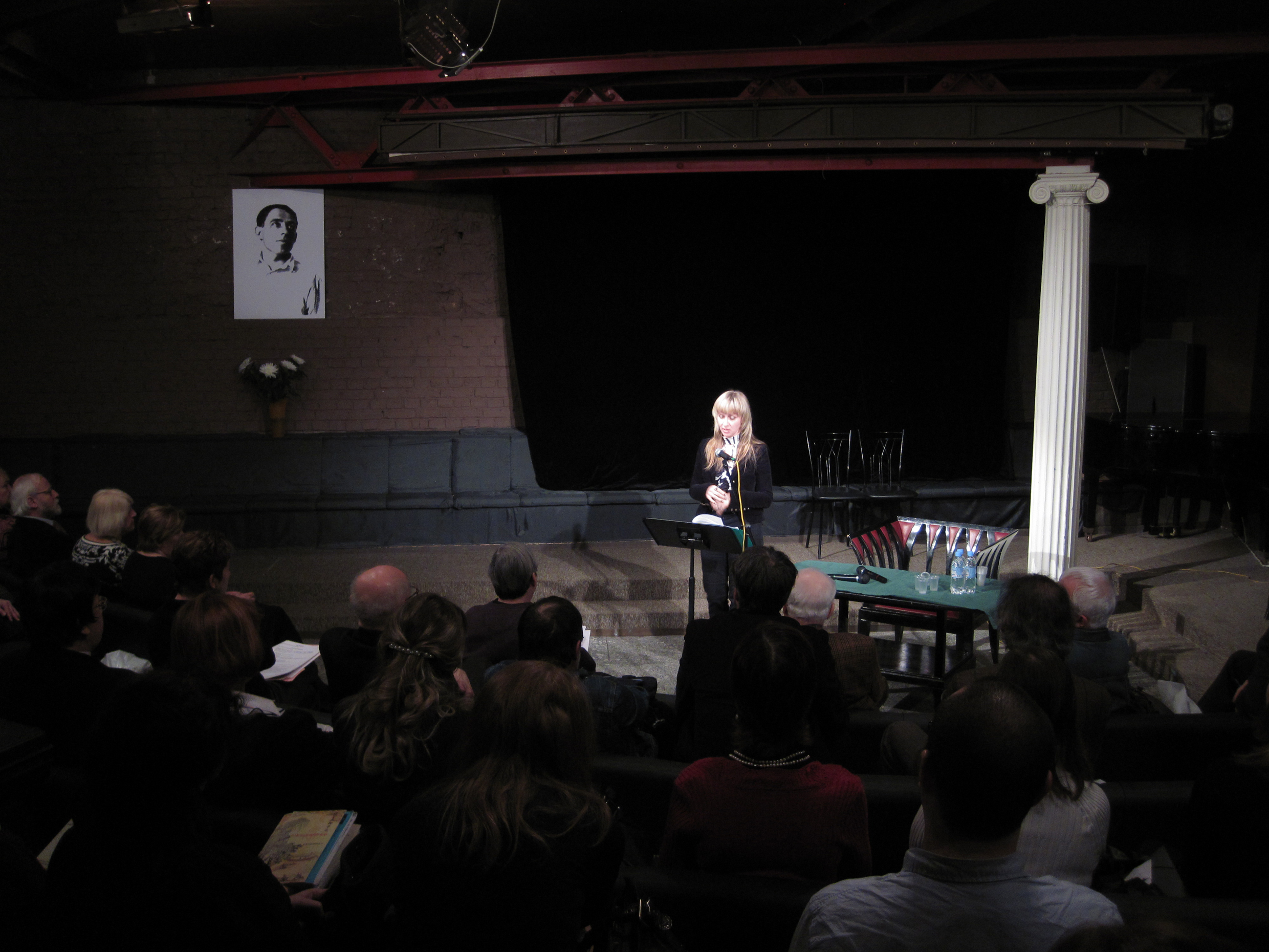 The State Museum of V.V. Mayakovskii. Moscow. Speech by E. Grigoryants at the conference. March 29, 2011. 125 years of Aleksei Kruchyonykh.